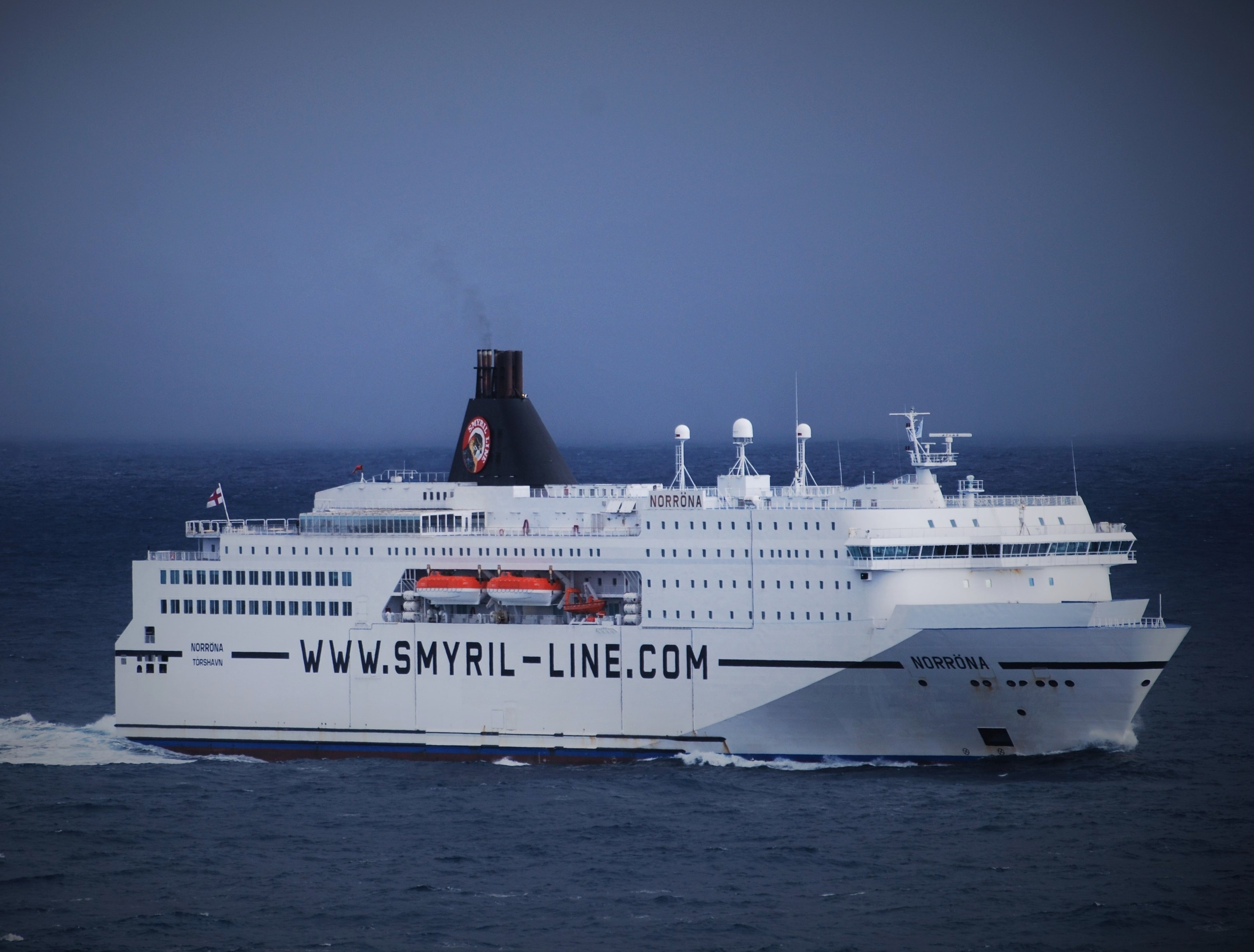 Norröna is the Faroes' largest ferry. It sails between Hirtshals, Denmark to Tórshavn, the Faroe Islands and Seyðisfjörður, Iceland.